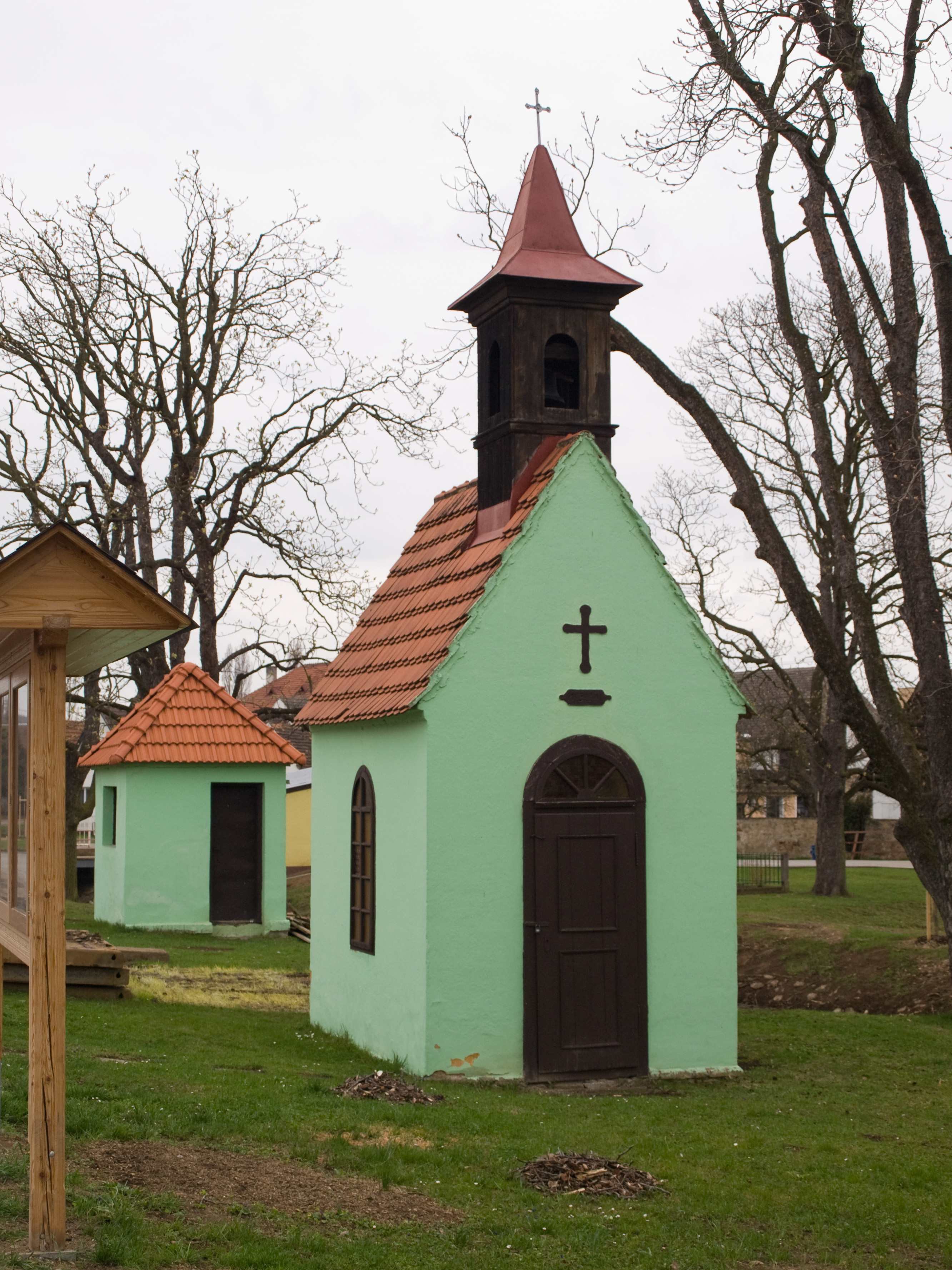 Rpety, Beroun District, Central Bohemian Region, Czech Republic